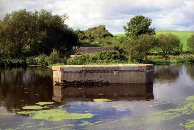 The Quoile Bridge The piers of the Quoile Bridge.